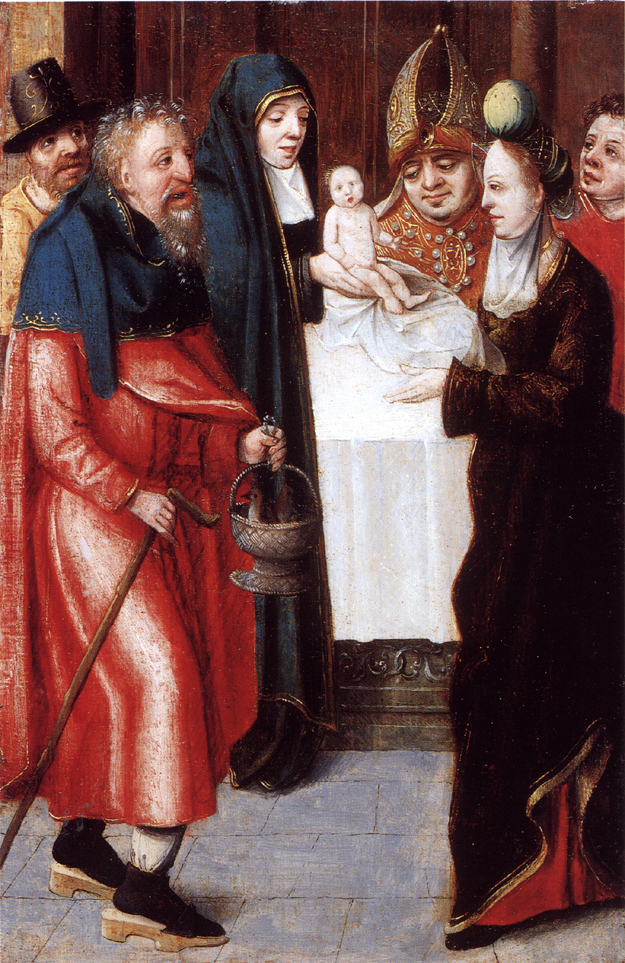 The Presentation Of The Child Jesus in The Temple